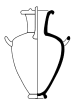 GIF - Hydria